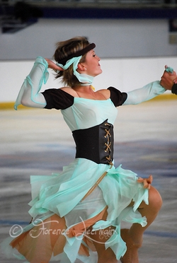 Zoé Blanc during the French Masters in 2009, performing Original Dance. (copyright Florence Lécrivain)